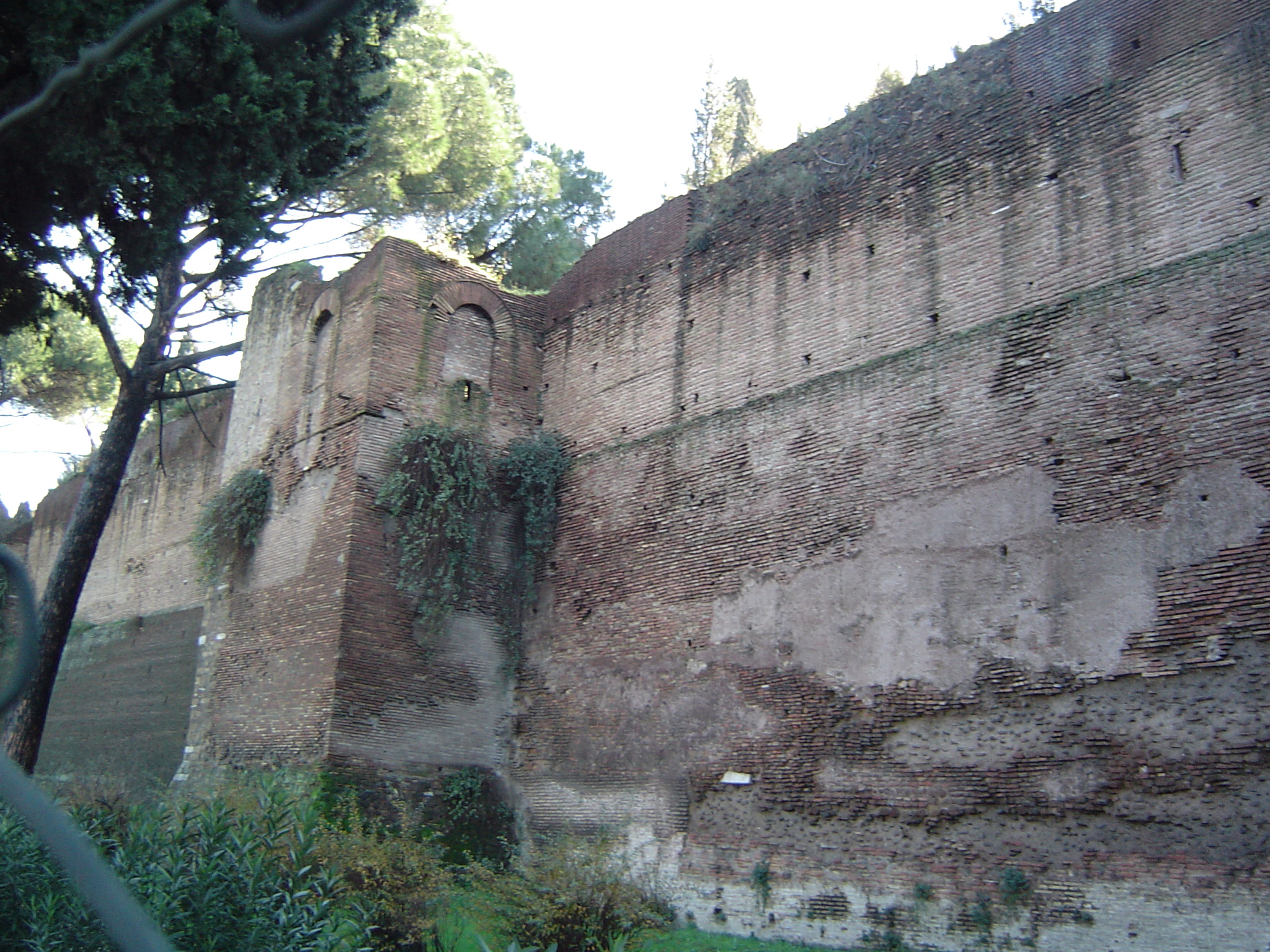 Torre nelle Mura aureliane al "Muro Torto", a Villa Borghese Made by Joris van Rooden, the Netherlands on 03-01-2006